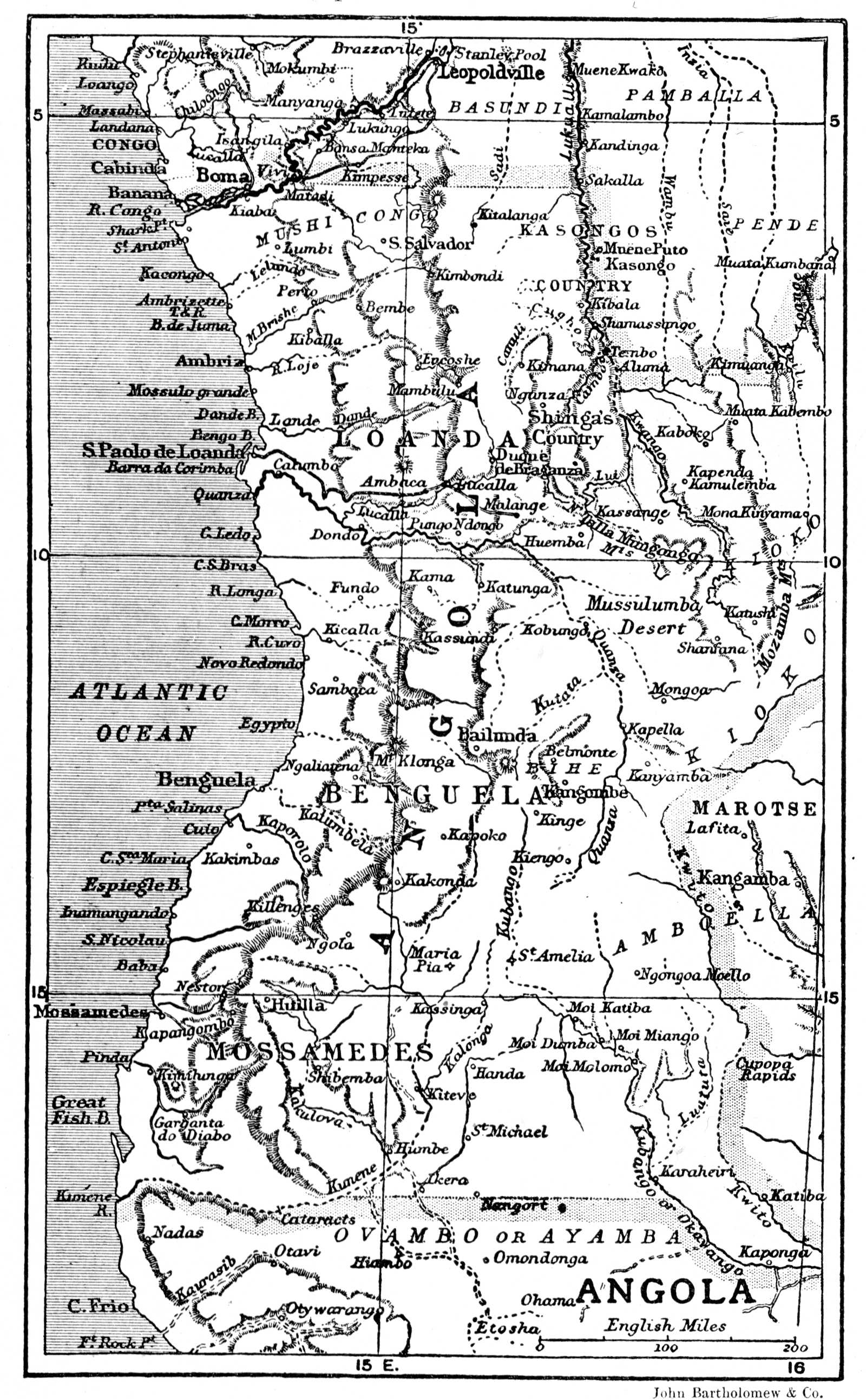 Angola before the Portuguese occupation of Mbundaland